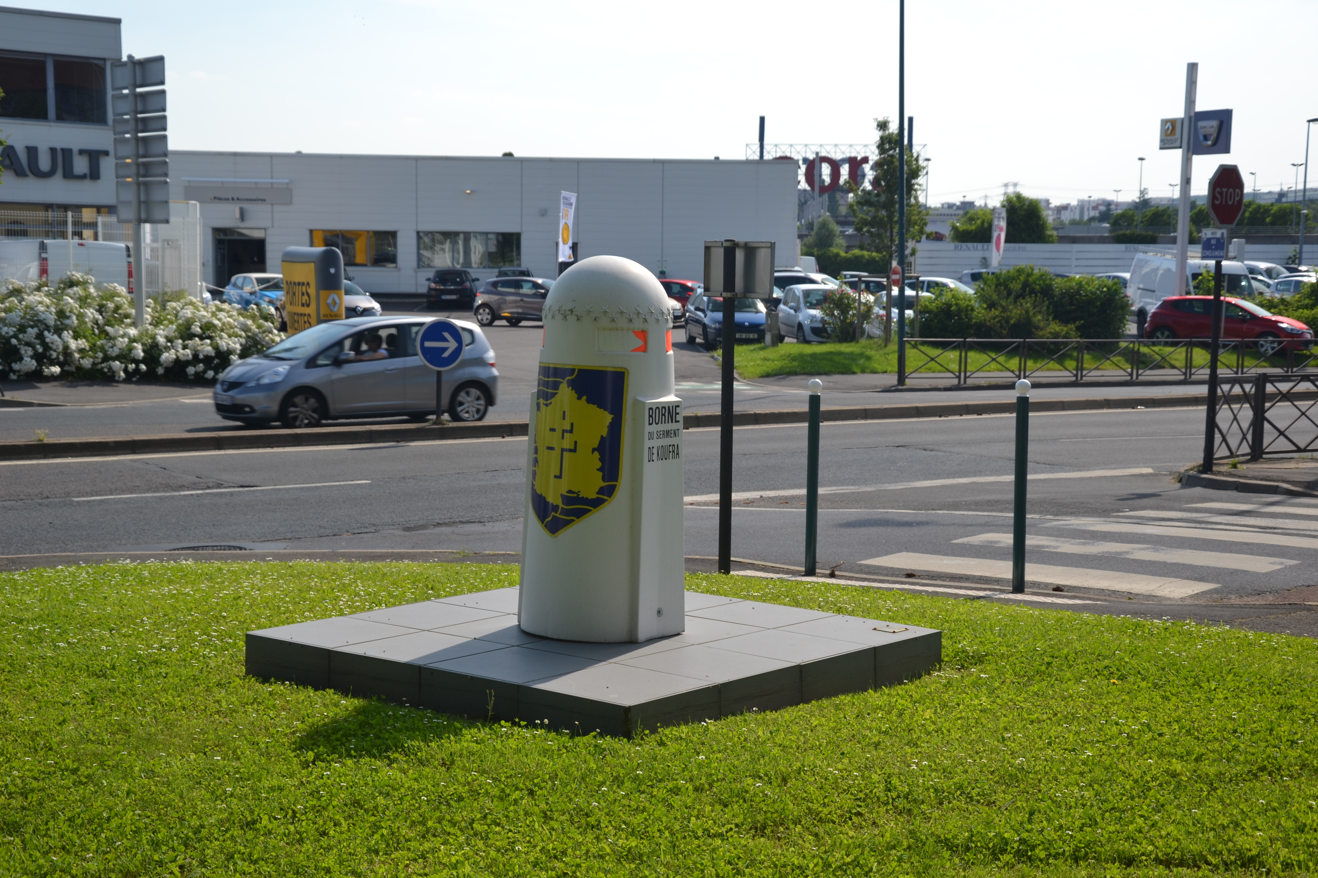 Milestone of the Liberty Road, on the way to the second DB , after landing on Utah Beach